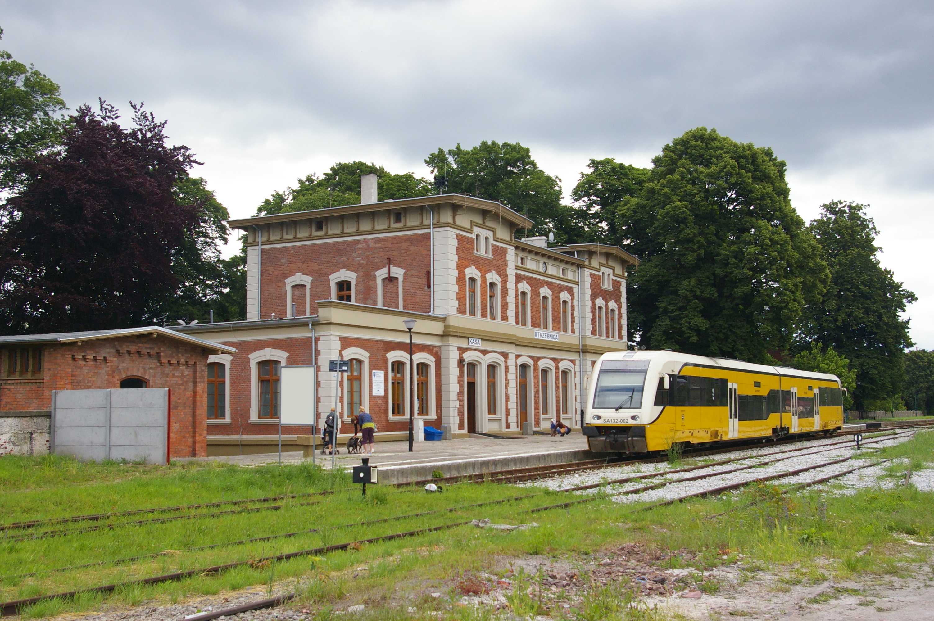 Terminus train station in Trzebnica, Poland. It's the end of the line from Wrocław. PESA 132-002 waiting for departure.